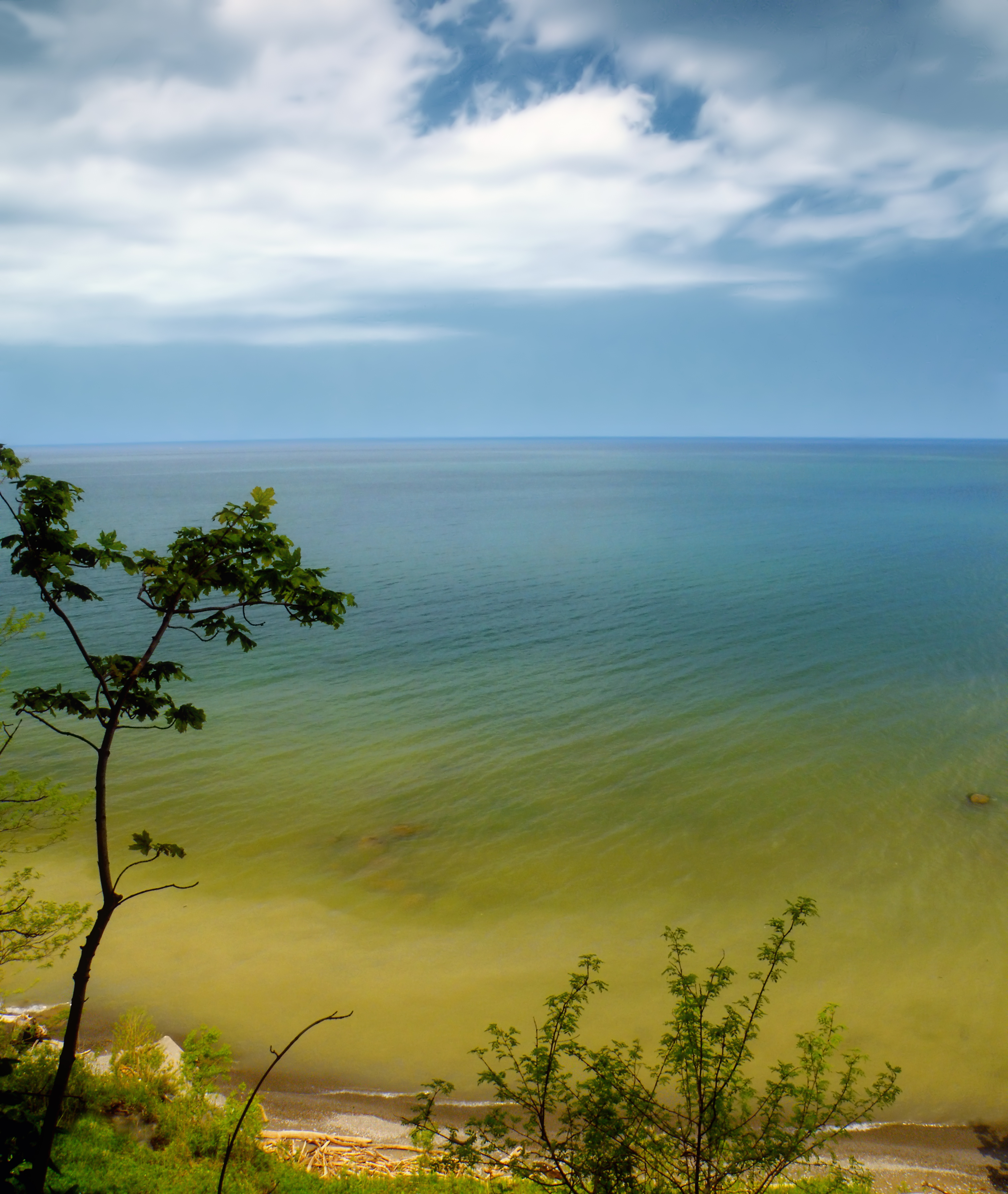 Erie Bluffs State Park, Erie County, Pennsylvania, USA. Shot with a warming polarizer.